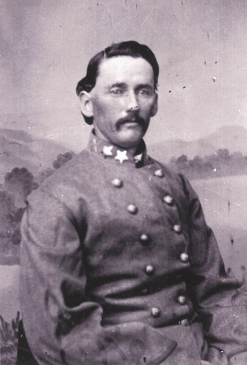 Colonel Marcellus Pointer, 12th Alabama Cavalry, Hagan’s Brigade of Allen’s Division, Wheeler’s Cavalry Corps, C.S.A., Alabama Department of Archives and History